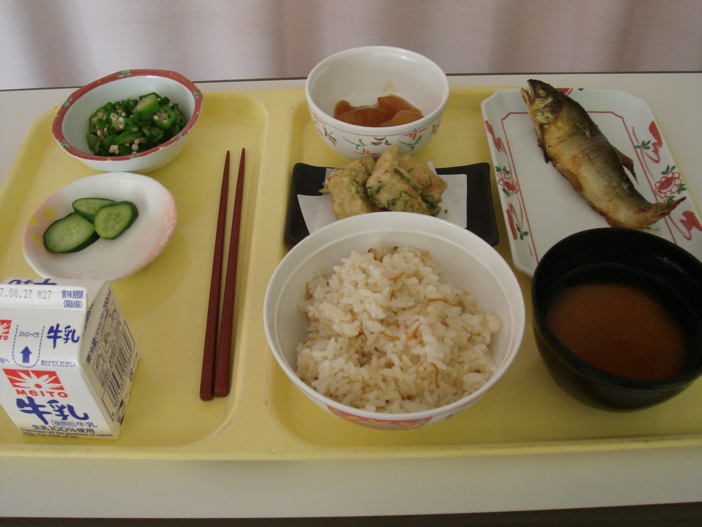 Japanese hospital food on a tray: fish, rice, carton of milk.